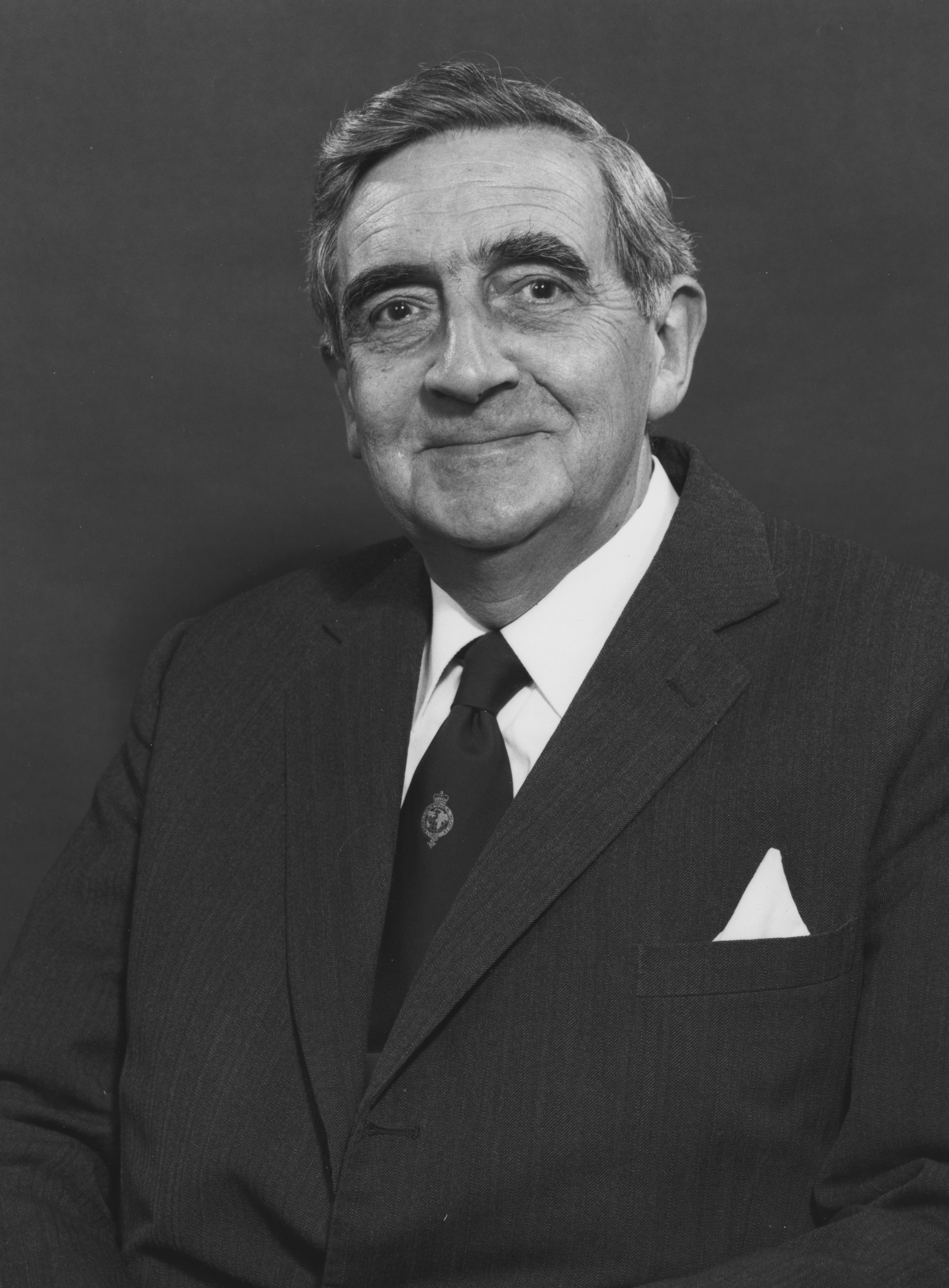 Professor of Geography IMAGELIBRARY/1147 Persistent URL